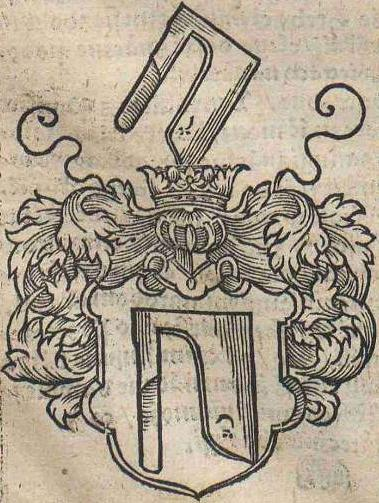 Coat of arms Topór from Herby rycerstwa polskiego by Bartosz Paprocki